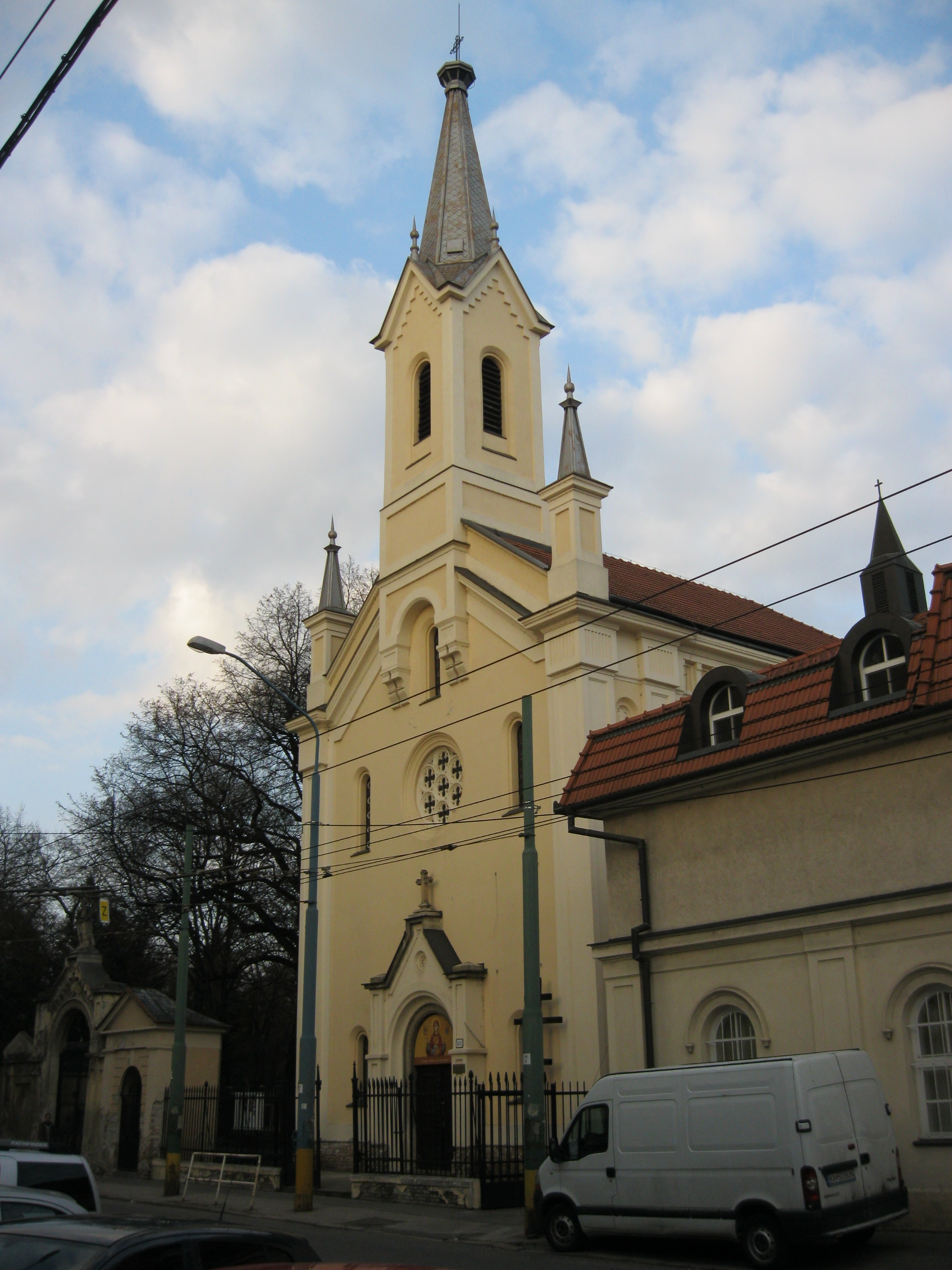 Cathedral of the Exaltation of the Venerable and Life-Creating Cross, Bratislava, 29.augusta ul bratislava